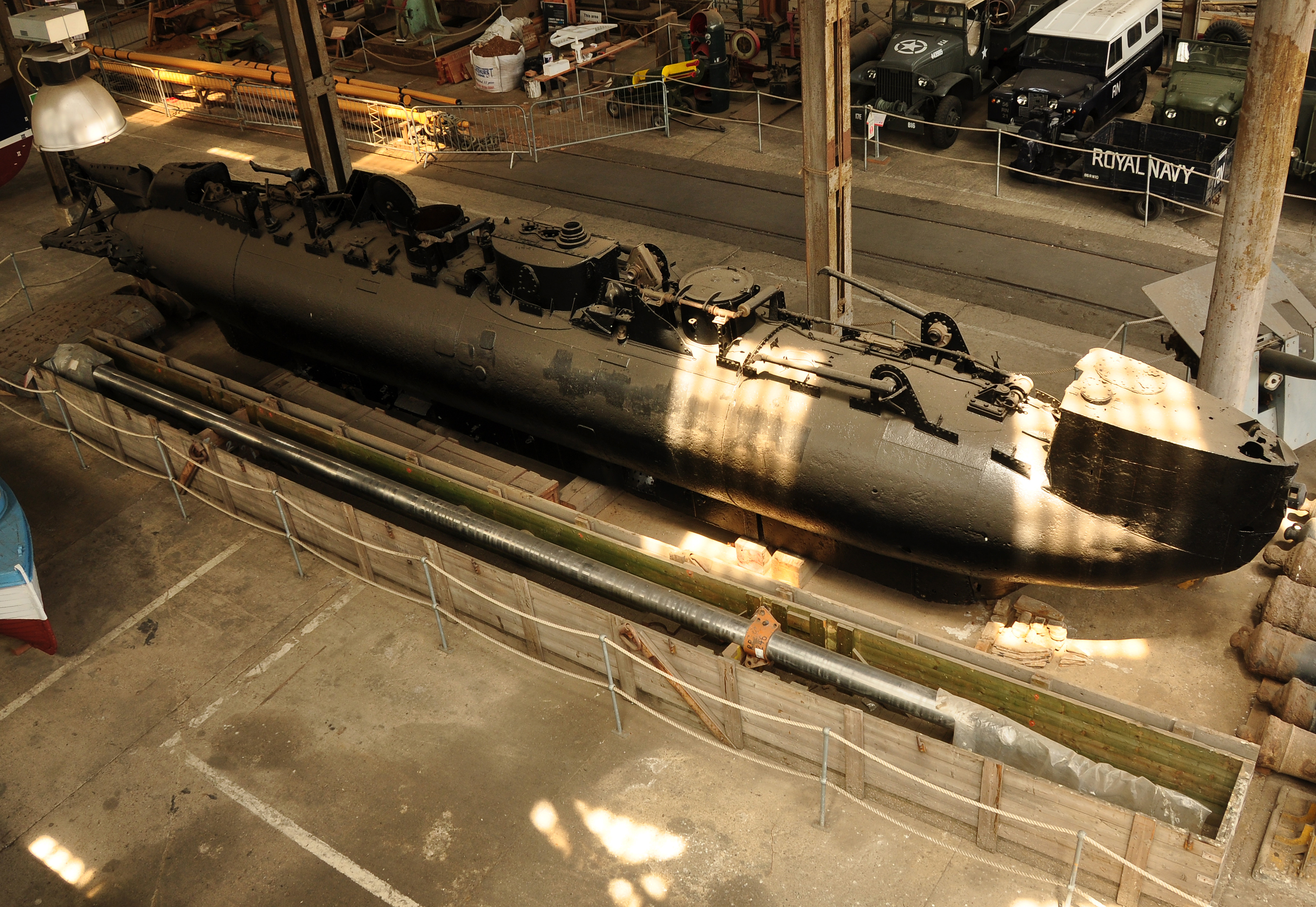 The midget submarine XE8 on display in Chatham Dockyard, Kent.